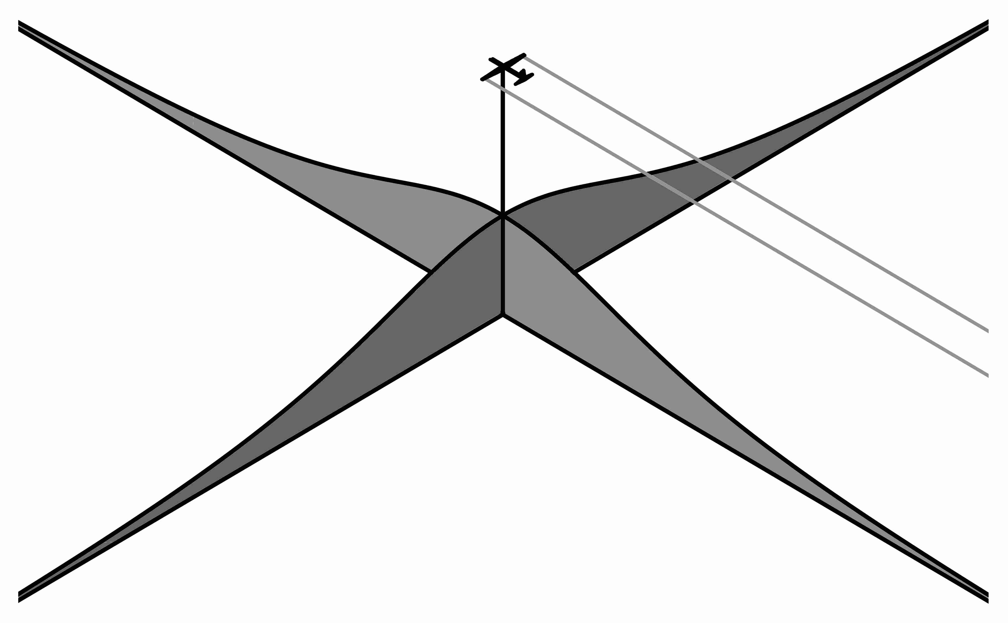 Isometric plot of pressure footprint under a lifting wing